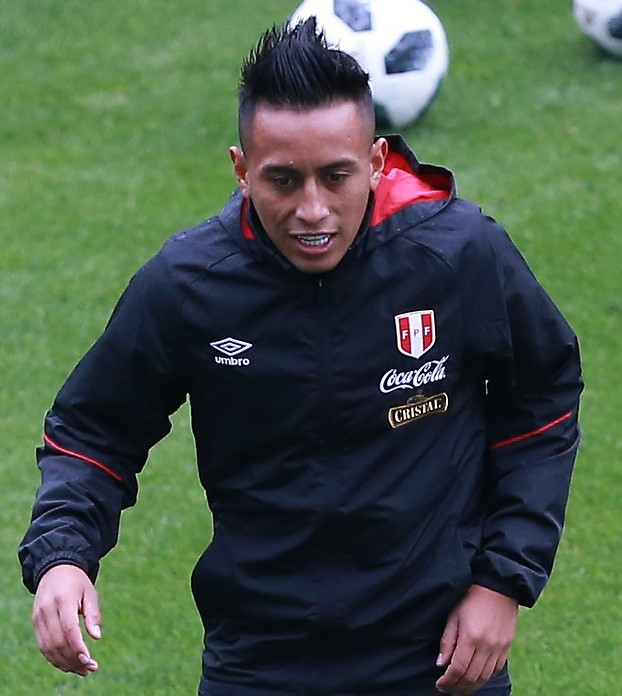 Christian Cueva